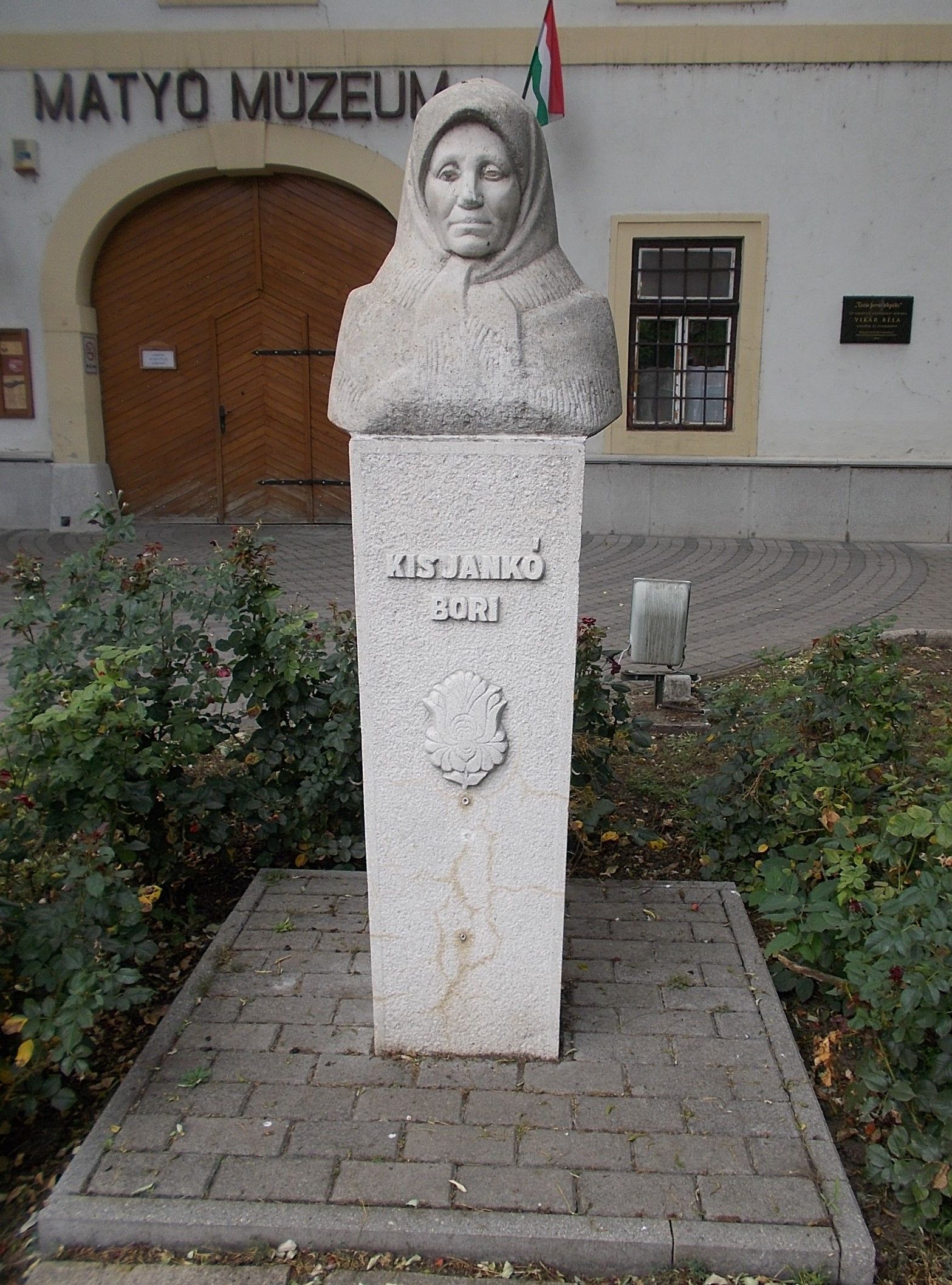 Bust of Kisjankó Bori by József Ács (1969 limestone bust). - Szent László square, Mezőkövesd, Borsod-Abaúj-Zemplén County, Hungary.